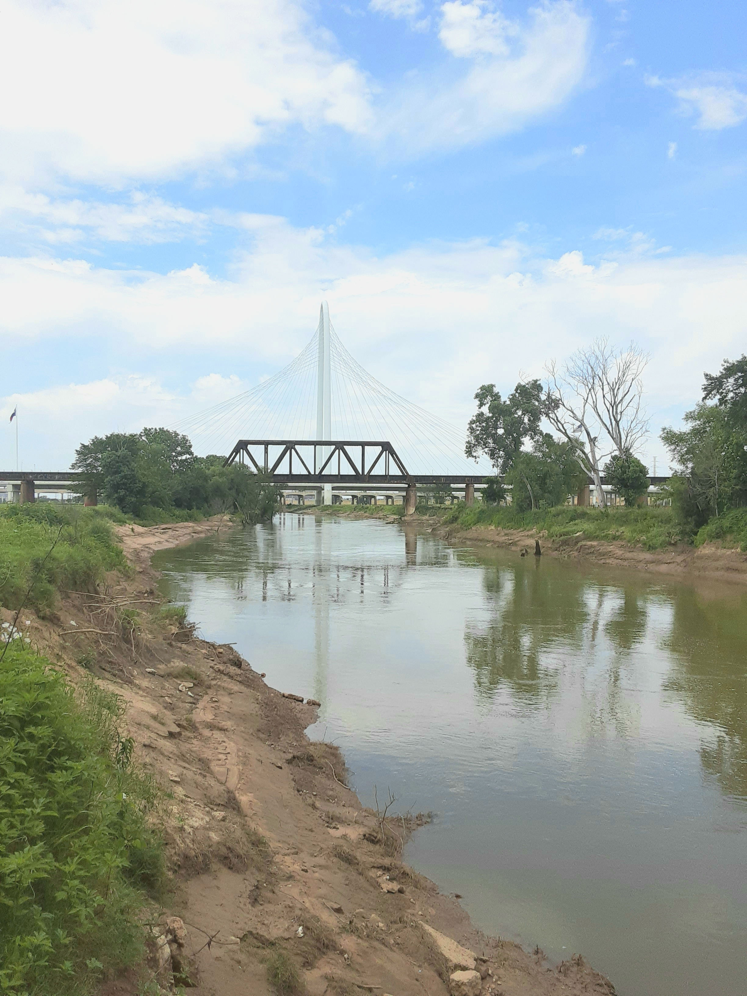 The Trinity River at Margaret Hunt Hill Bridge in Dallas